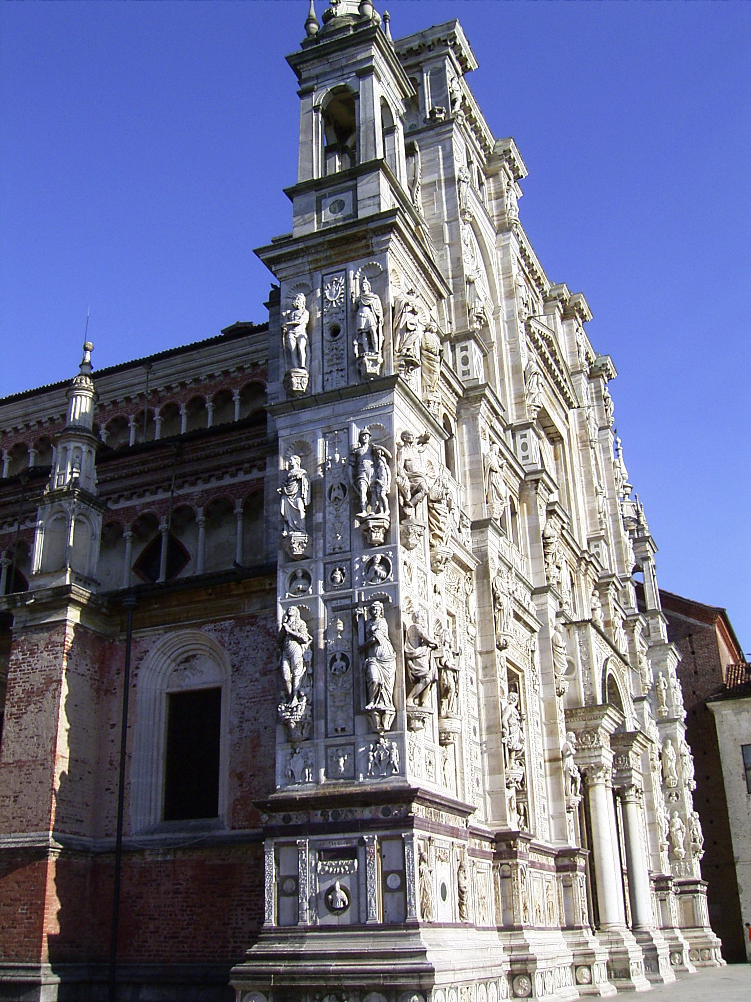 A lateral view of the church of the monastery of Certosa di Pavia, near Pavia, Italy.